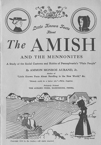 Birth of Mennonite movement